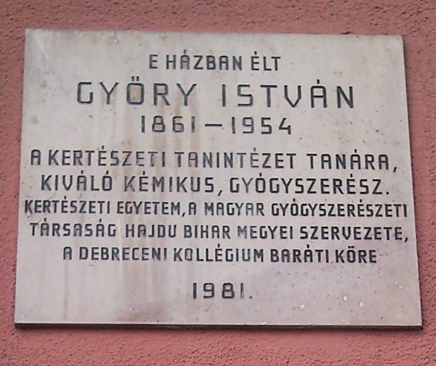 István Győry commemorative plaque in Budapest District XI, Bocskai Street No 27.